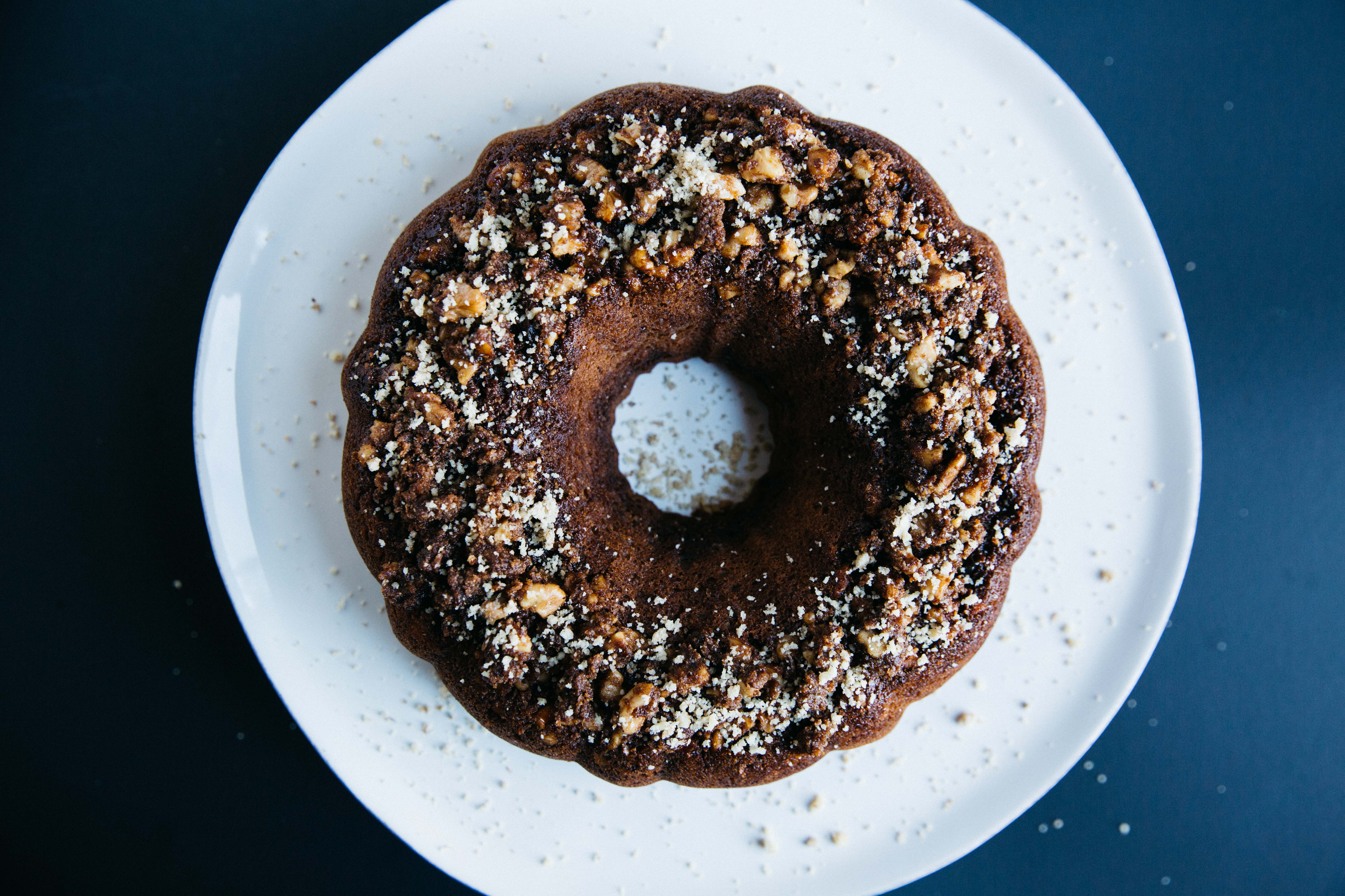 San Francisco, United States